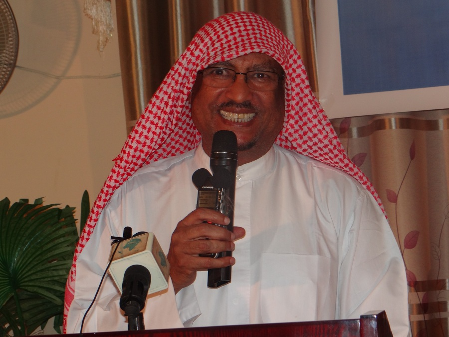 Somali politician Faisal Ali Warabe, founder and Chairman of the For Justice and Development (UCID) based in Hargeisa, Somalia.